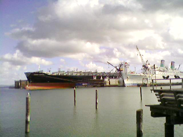 Hanjin's "COSCO Busan" at Pier 70 — undergoing repairs in December, after a collision with the Bay Bridge on November 7, 2007. To the right is the SS Oceanic.